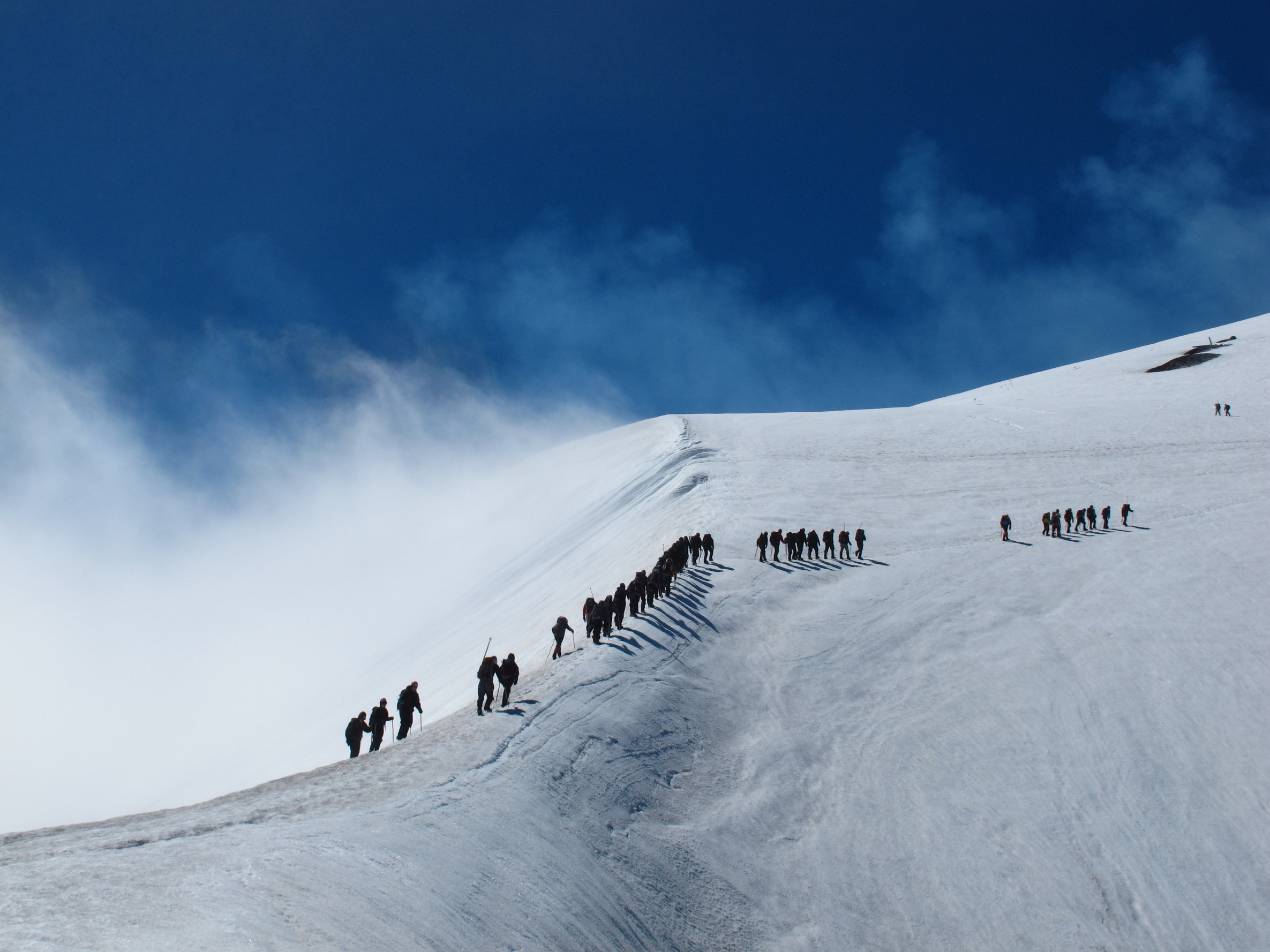 Climbing the Villarica volcano in Chile.